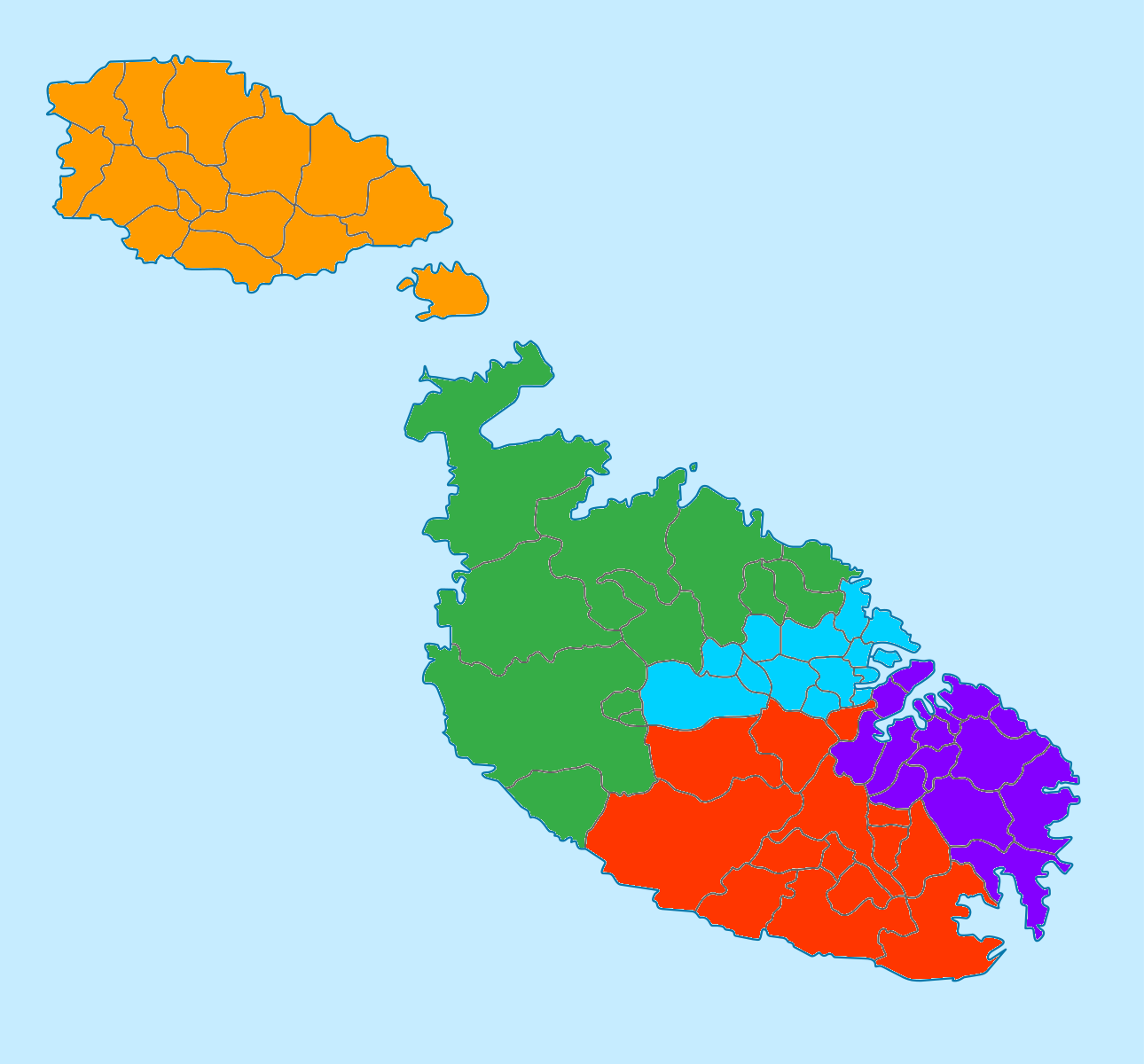 Regions of Malta by color.